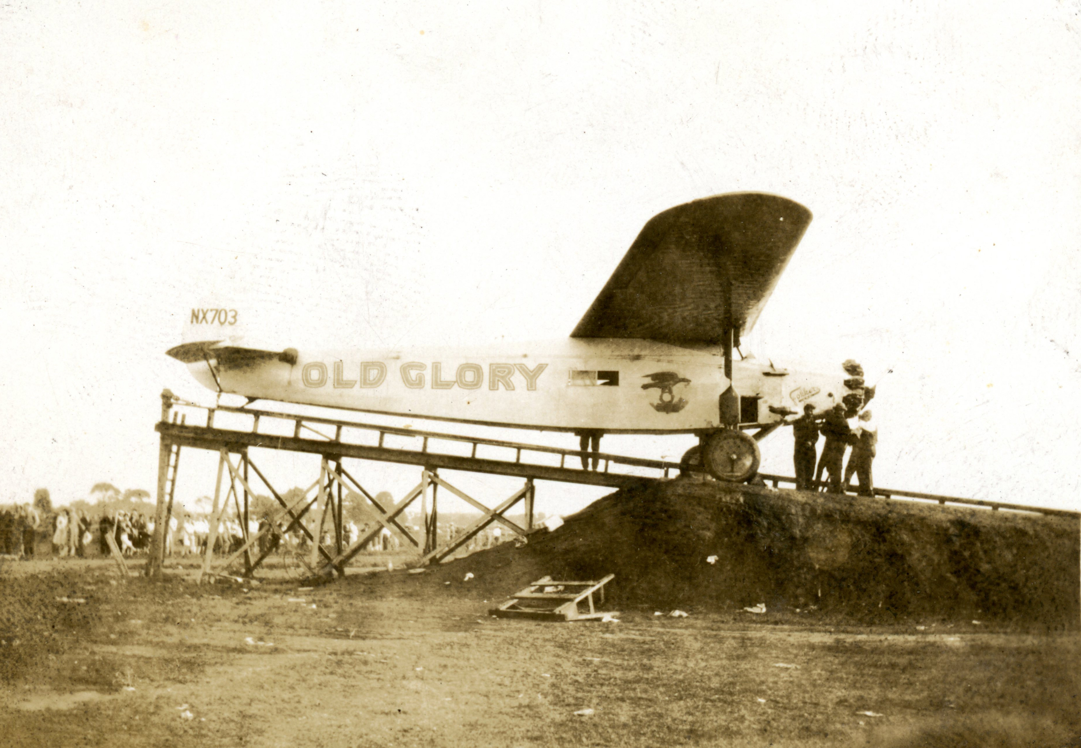 A photo of Old Glory aircraft from my mother's photo albums, probably taken by my grandfather, Armand Lizotte. He was in the USAF at the time, and there are other photos obviously taken at the same airfield that include him. There is no information written in the photo album.